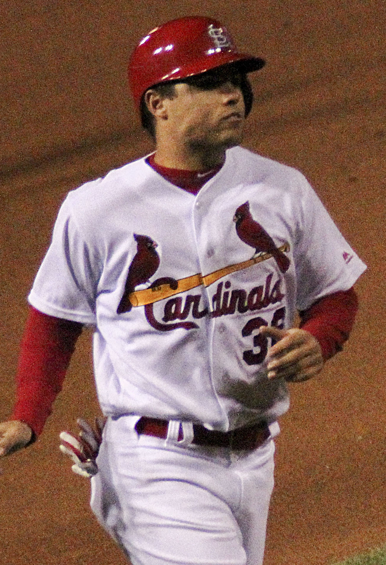 Aledmys Díaz of the St.Louis Cardinals.